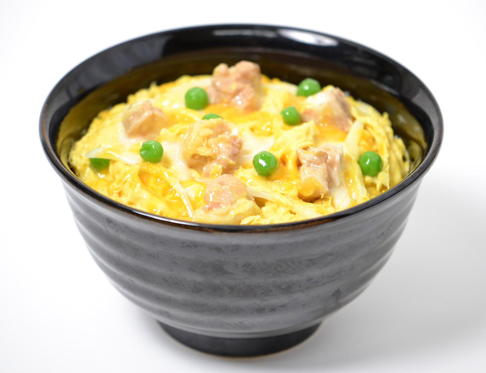 Bowl of rice with (soy‐and‐sugar‐seasoned) chicken, egg, and vegetables